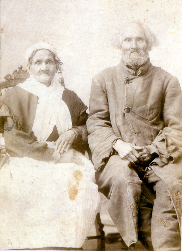 Aaron and Hannah Jackson, two former slaves of U.S. President Andrew Jackson